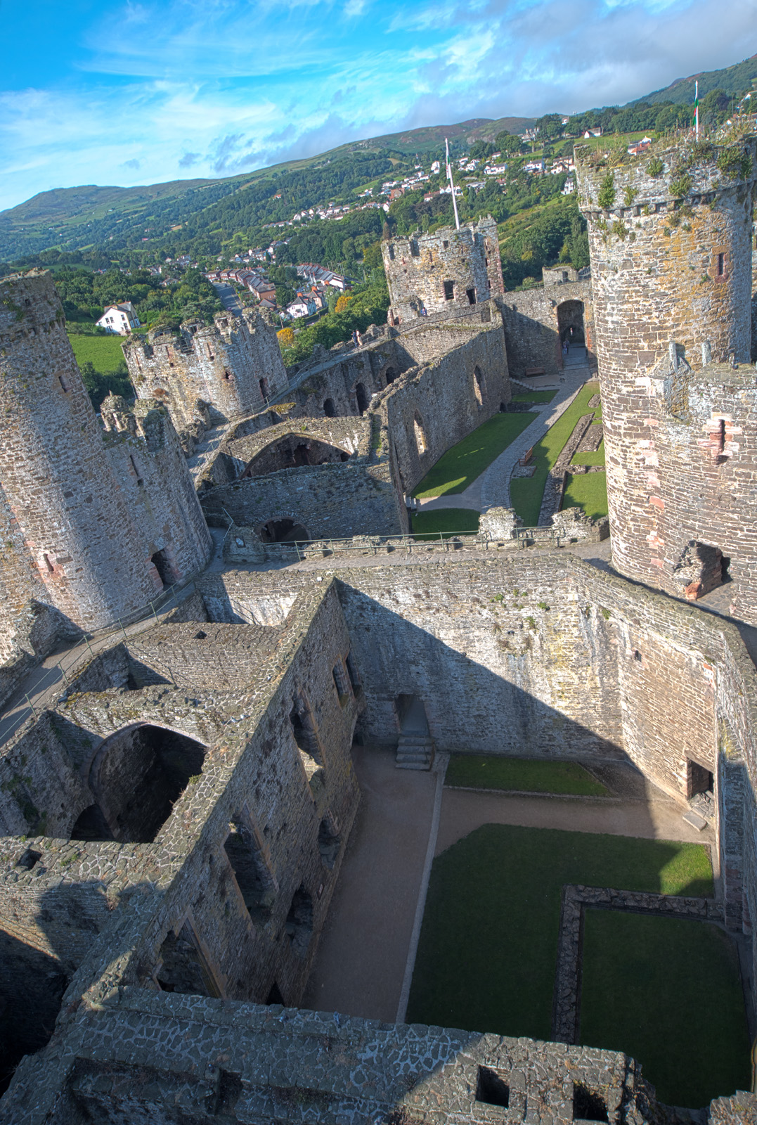 Conwy Castle (HDR)